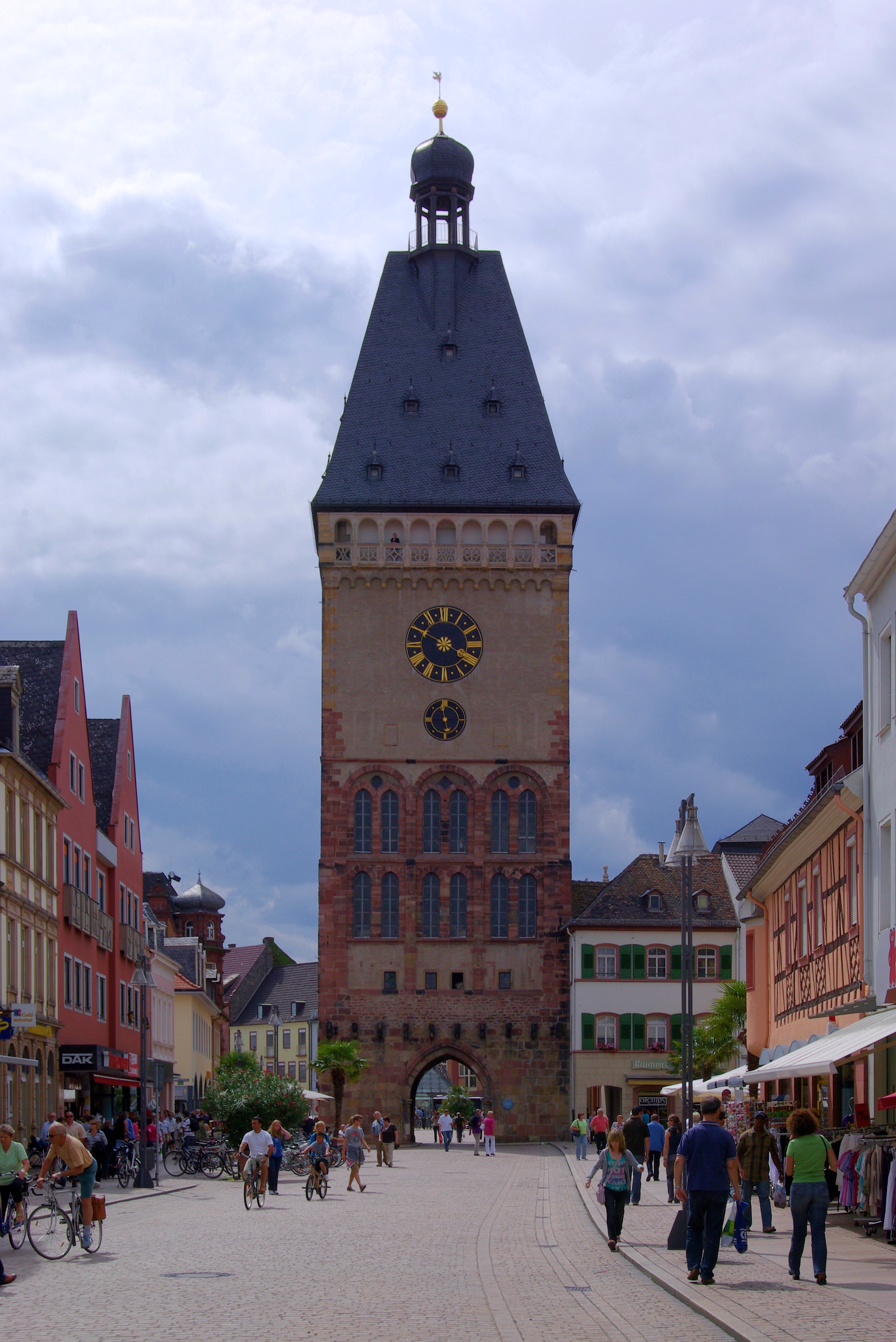 Germany, Speyer, Altpörtel